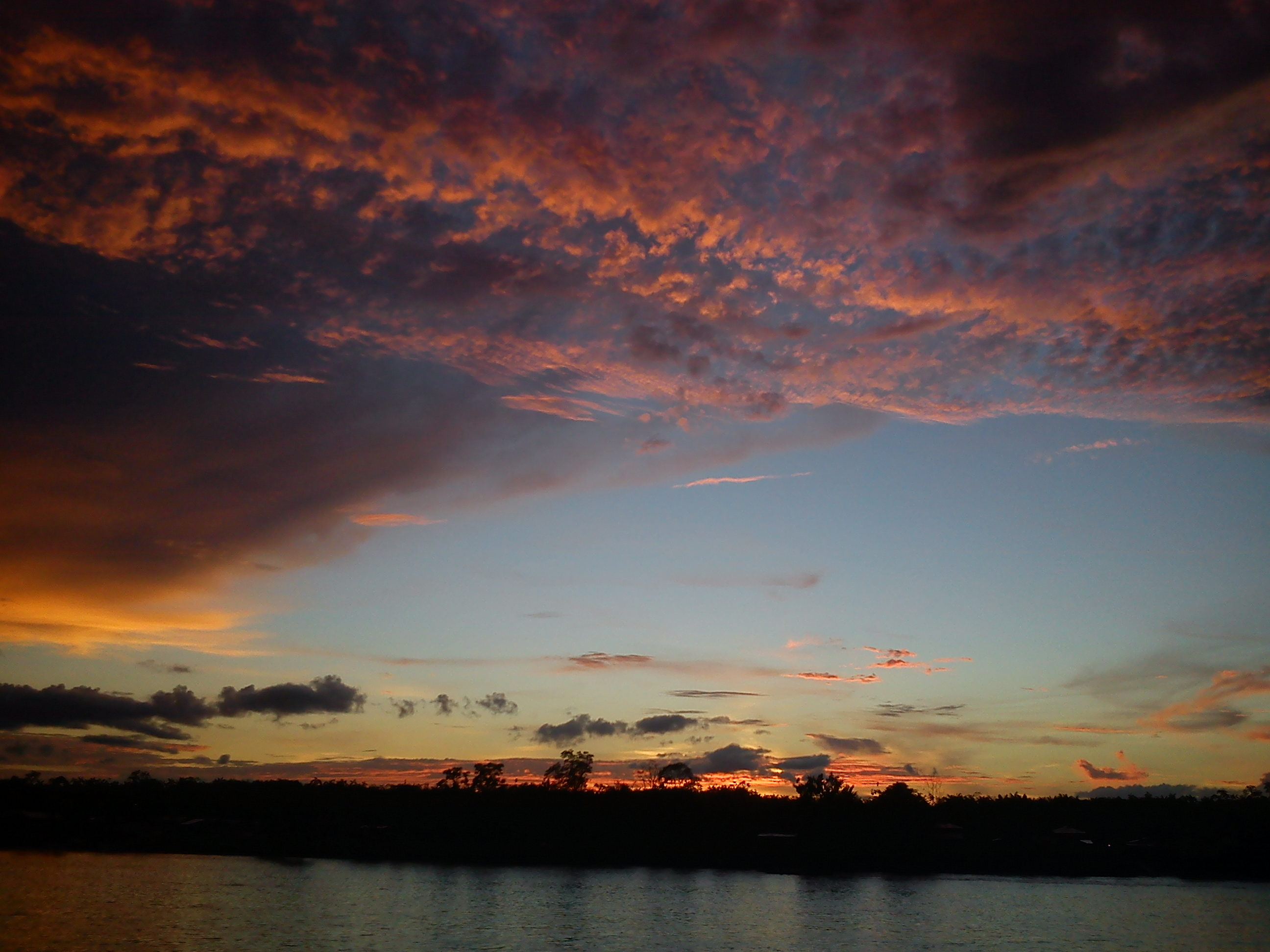 Atardecer en Quibdo